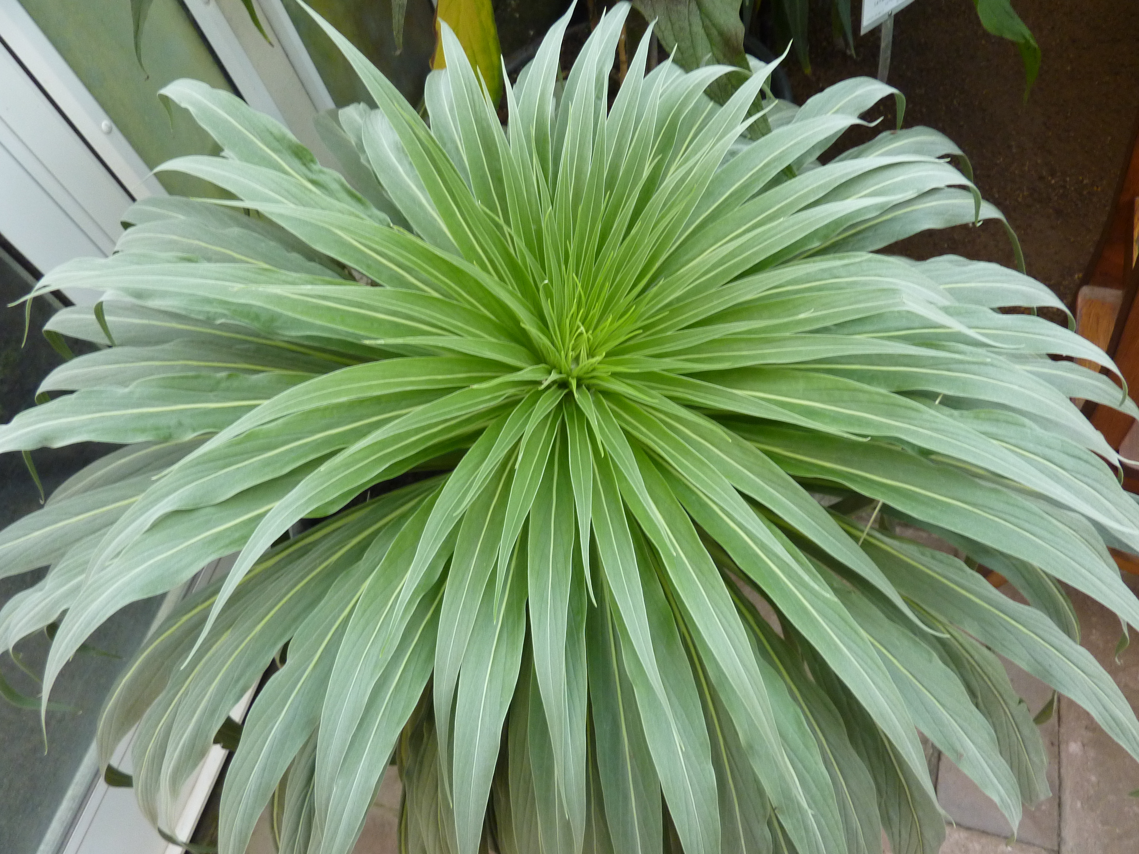 Echium simplex in the Botanical Garden, Berlin